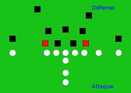 defensive ends positions on the field (football)